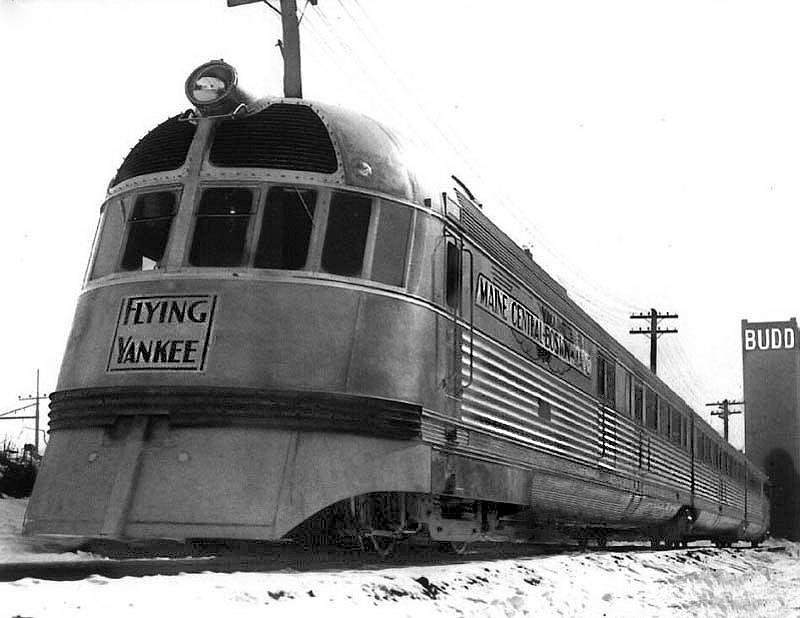 Photo of the train "Flying Yankee" from an April 1935 ad in Popular Mechanics. Higher quality version of same thing derived from [1].